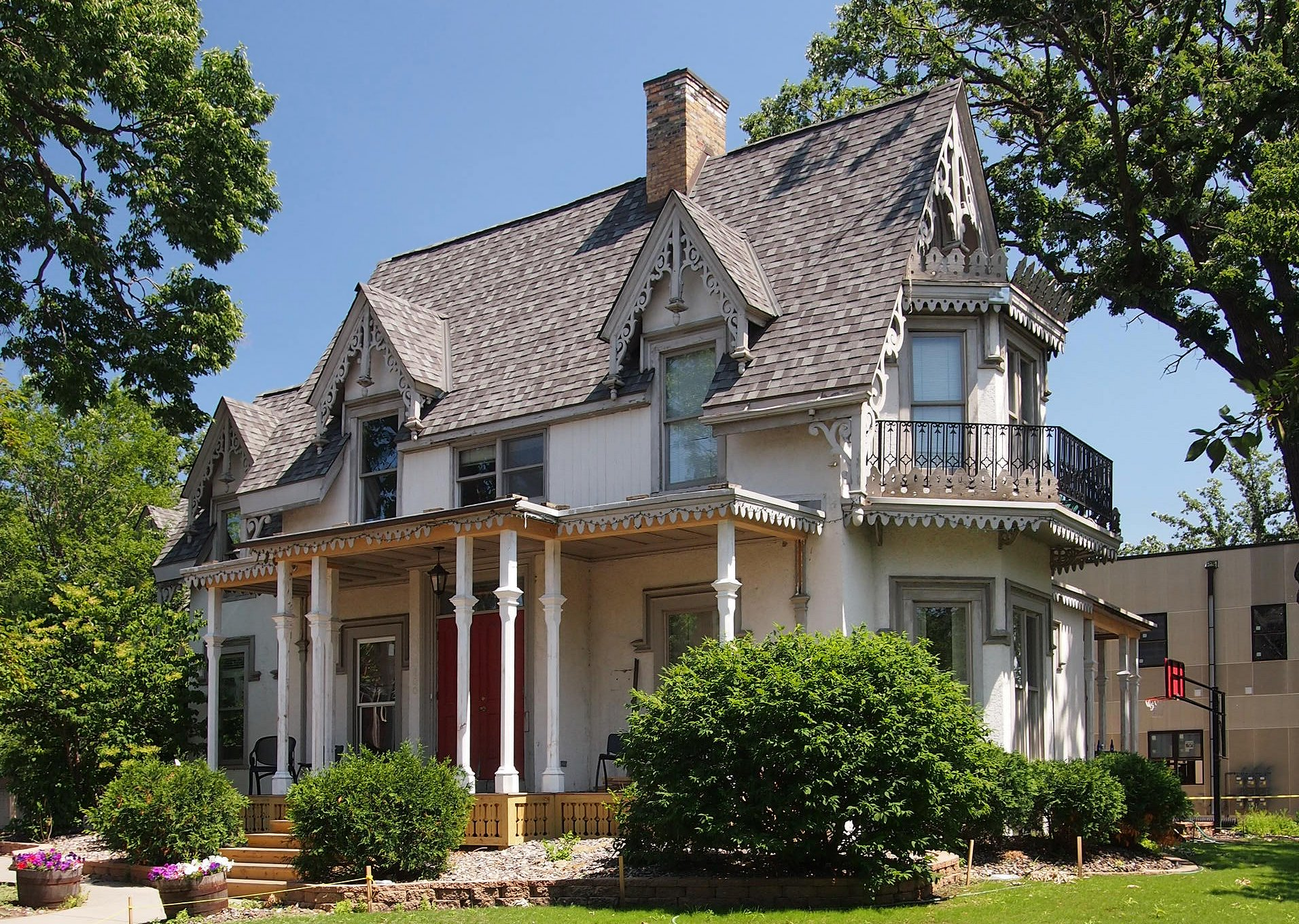 B. O. Cutter House (now the Sigma Phi Epsilon fraternity house), 400 10th Ave SE, Minneapolis, Minnesota, USA. Viewed from the west.